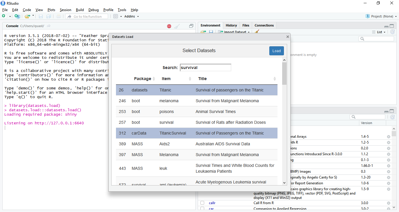 To avoid confusion, I am the author of the software in the image.